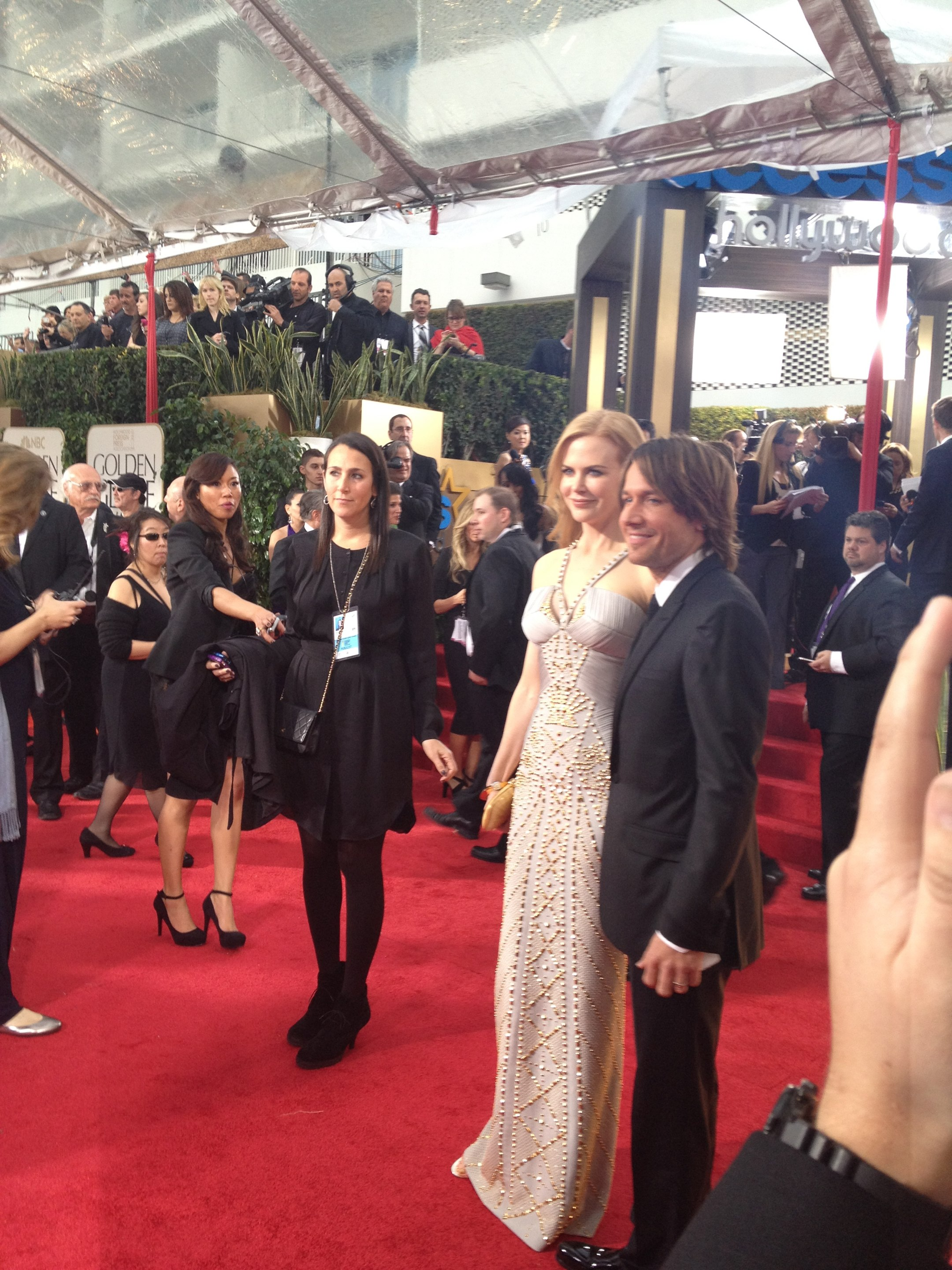 69th Annual Golden Globes Awards.